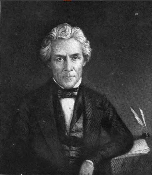 Portrait of John Bouvier 1787–1851 American jurist, seated at a desk, facing front, a pen and inkwell next to him.